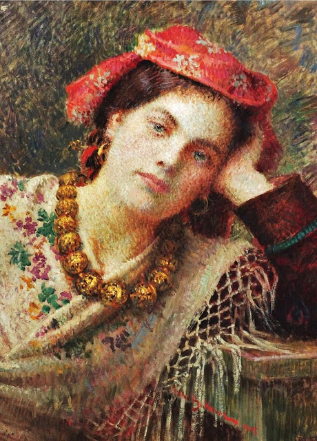 Daydreams